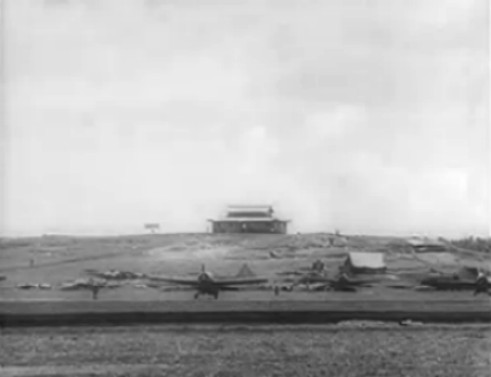 View of the "Pagoda" on Henderson Field, Guadalcanal, Solomon Islands, 1942. Note the Grumman F4F-4 Wildcat fighters in the foreground.